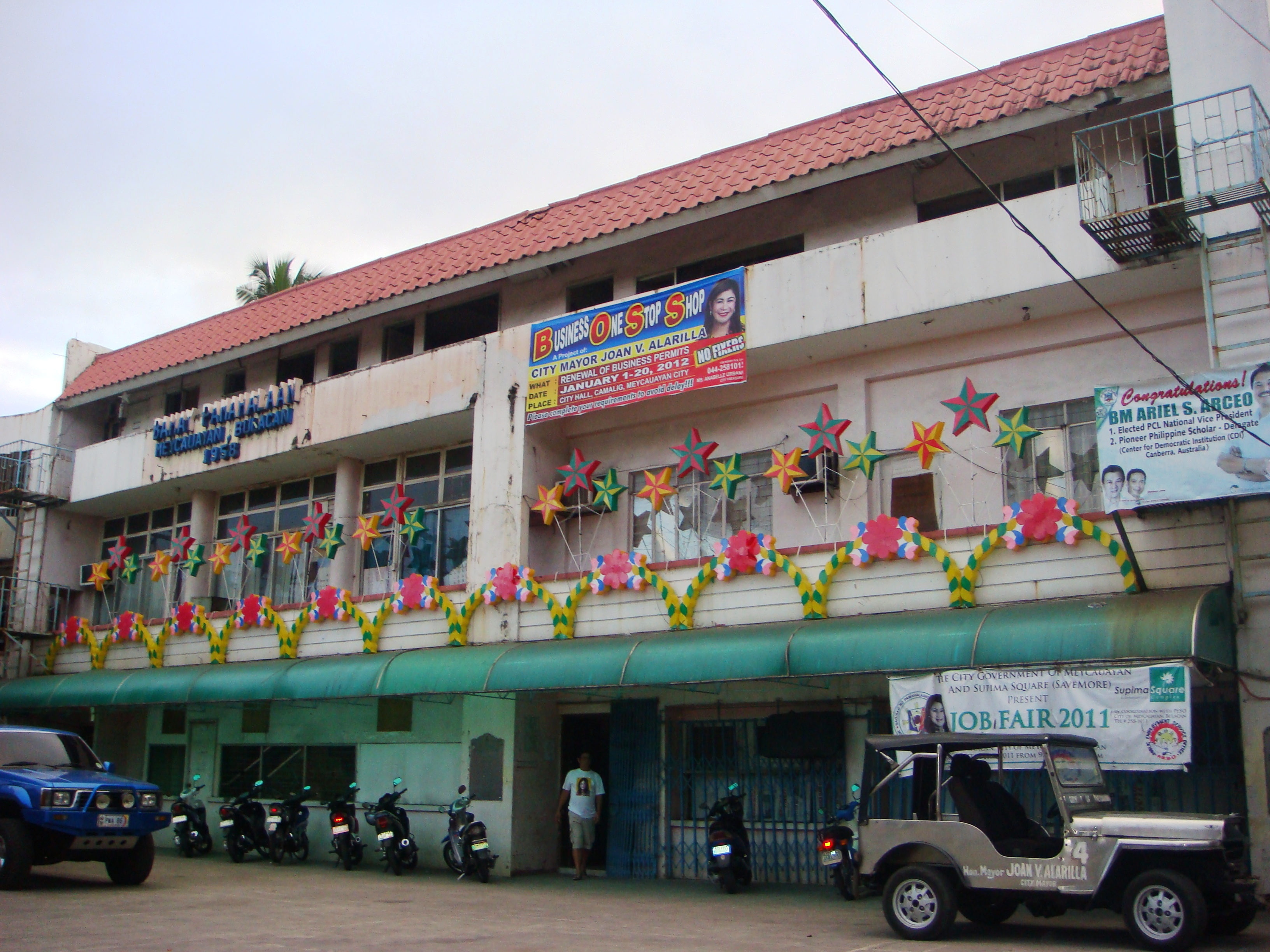 (L-shaped roof) The 1958 old Municipio (Poblacion, now houses the Mariano Quinto Alarilla Polytechnic College).